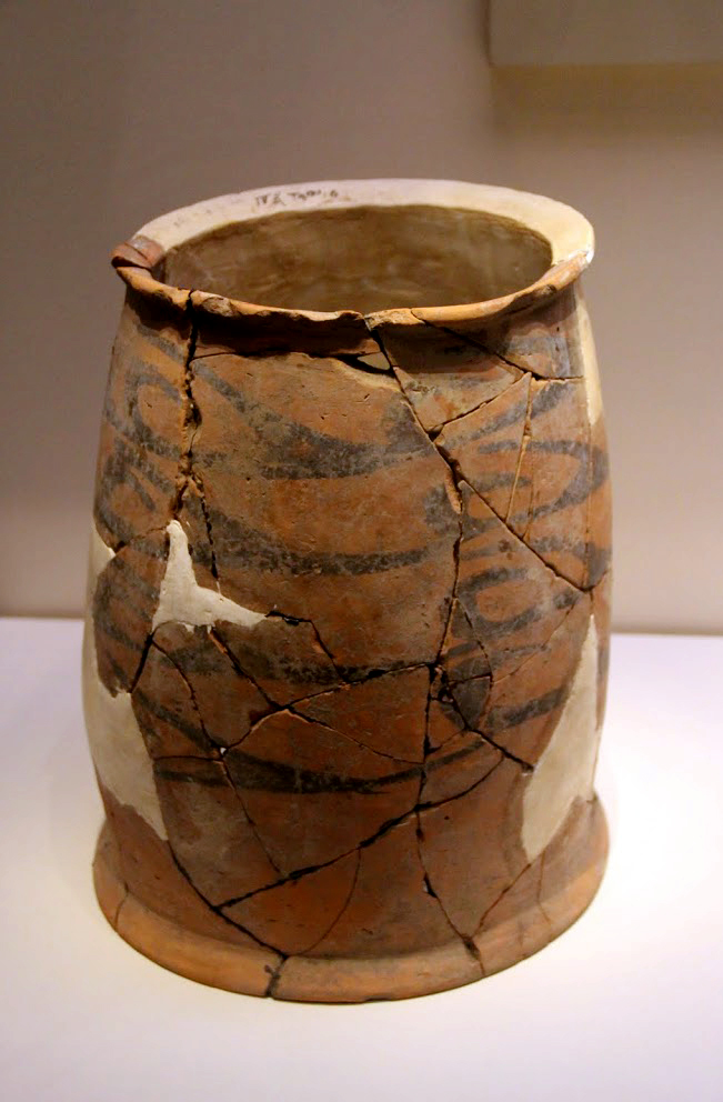 Neolithic pottery vessel, Hongshan Culture, Liaoning, 1988. National Museum of China, Beijing. Painted Cylindrical Pottery Vessel, Hongshan Culture (c. 4700-2900 BC), unearthed at Niuheliang, Lingyuan, Liaoning Province, 1988. It is exhibited in the section of Life and Production in Neolithic China, an exhibition of Ancient China in the National Museum of China. The Neolithic Age began about 10,000 years ago. This period featured the advent of agriculture, domesticated animals, polished stone tools, and the invention of pottery. People began living in settlements with blood relatives and the economy was gradually transformed into a production-based one. (Source: .cn)